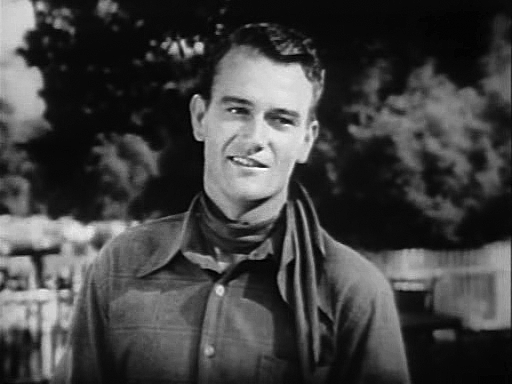 Snapshot from Riders of Destiny (1933)